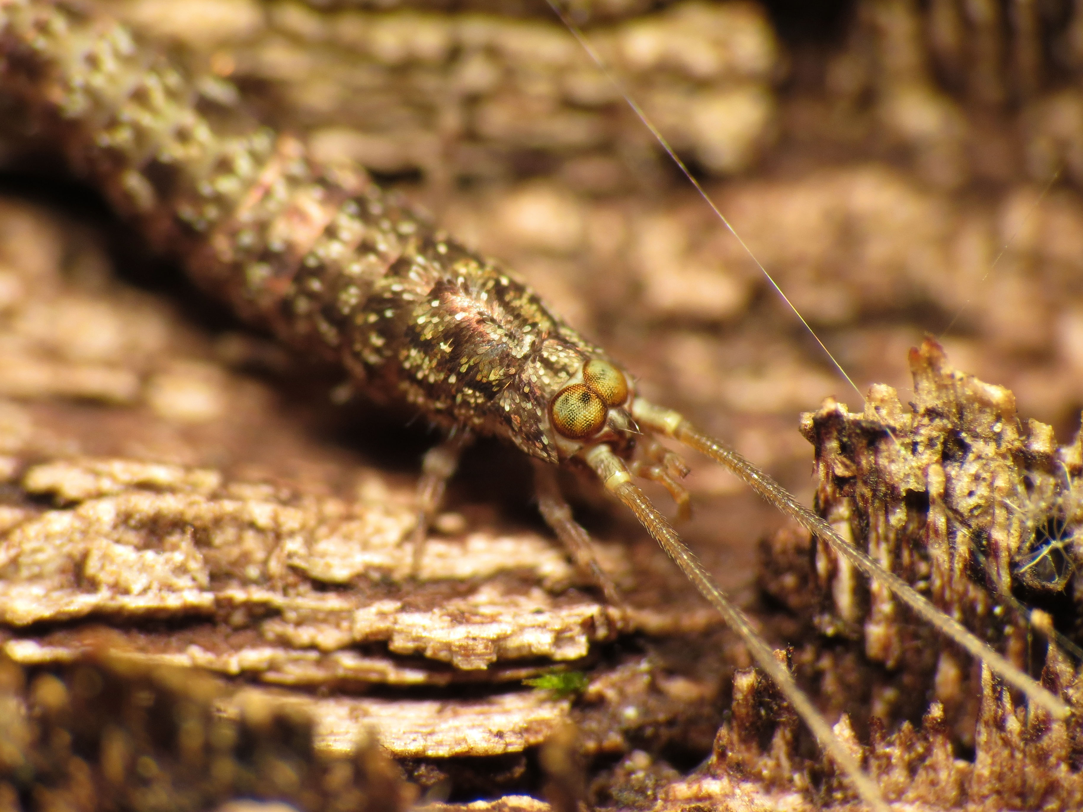 Machiloides banksi. Rock Creek Park, Washington, DC.